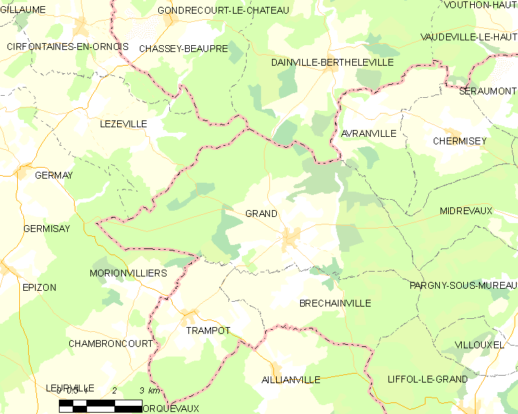 Map of French municipality Grand